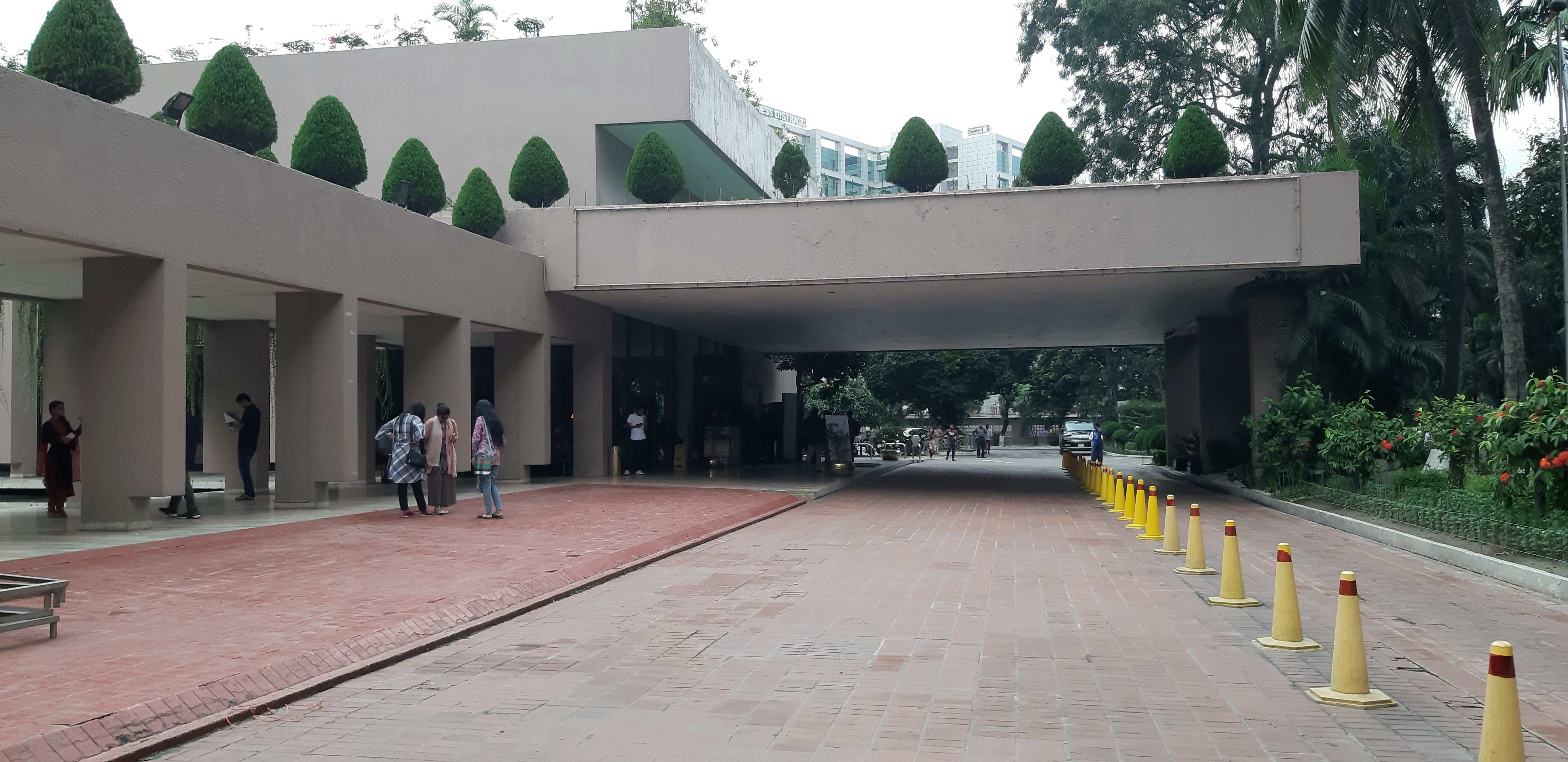 বাংলাদেশের অন্যতম ৫ তারকা মানের হোটেল । এর অবস্থান ঢাকার অন্যতম প্রাণকেন্দ্র কারওয়ান বাজার এলাকায়।